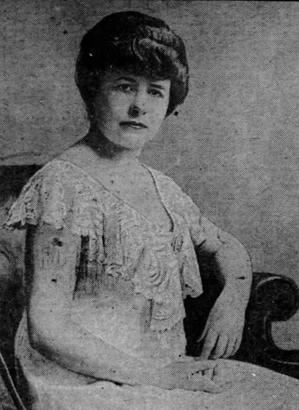 Helen Losanitch Frothingham, Serbian-American humanitarian aid worker Српски (ћирилица): Јелена Лозанић Фротингхам